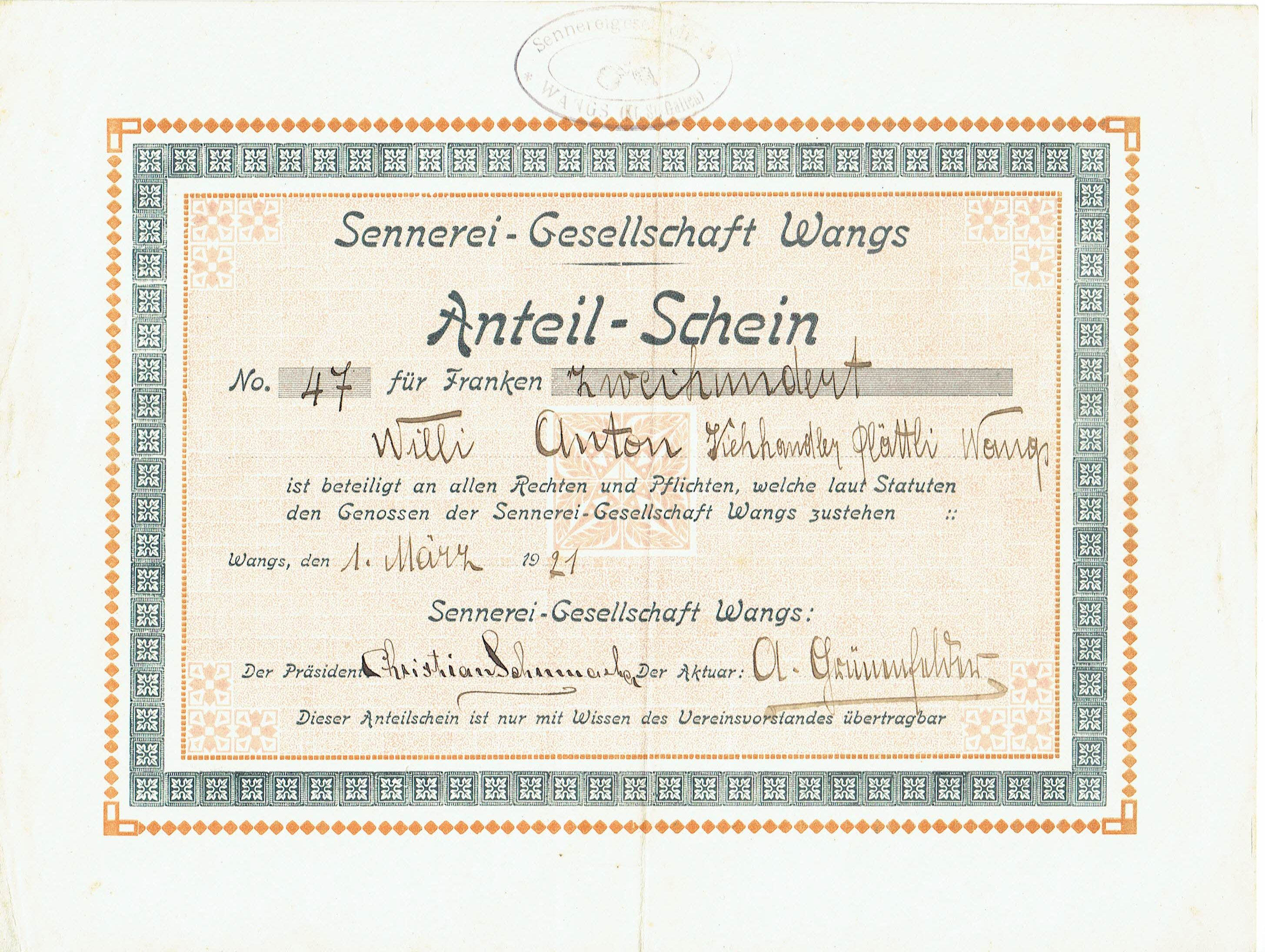 Share certificate of the Sennerei-Gesellschaft Wangs, issued 1. March 1921